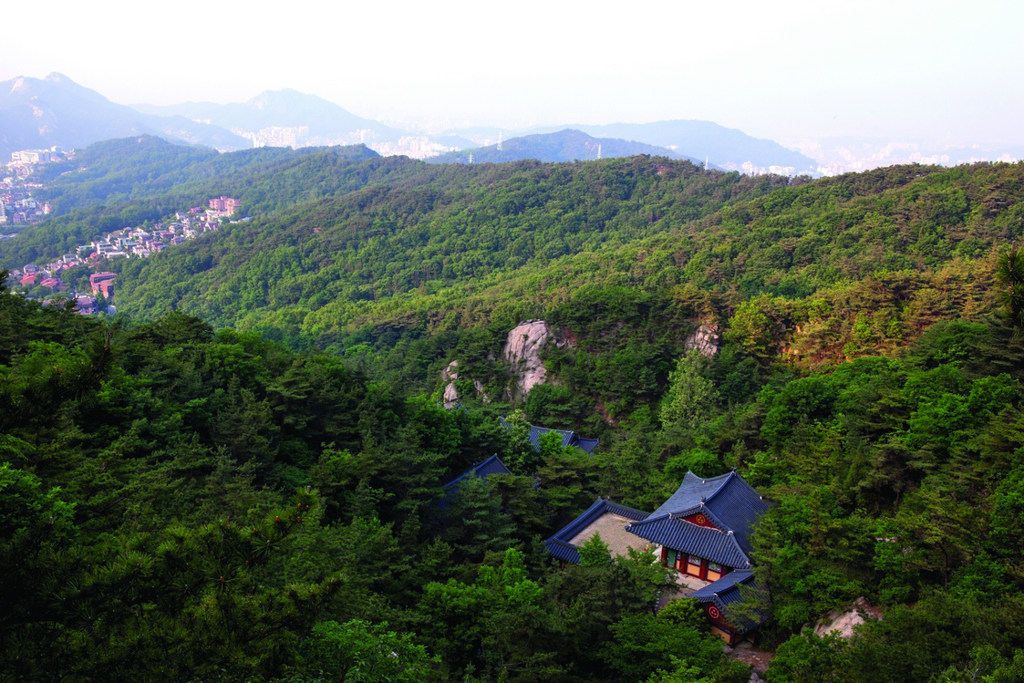 Geumsun temple1